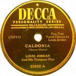 Caldonia